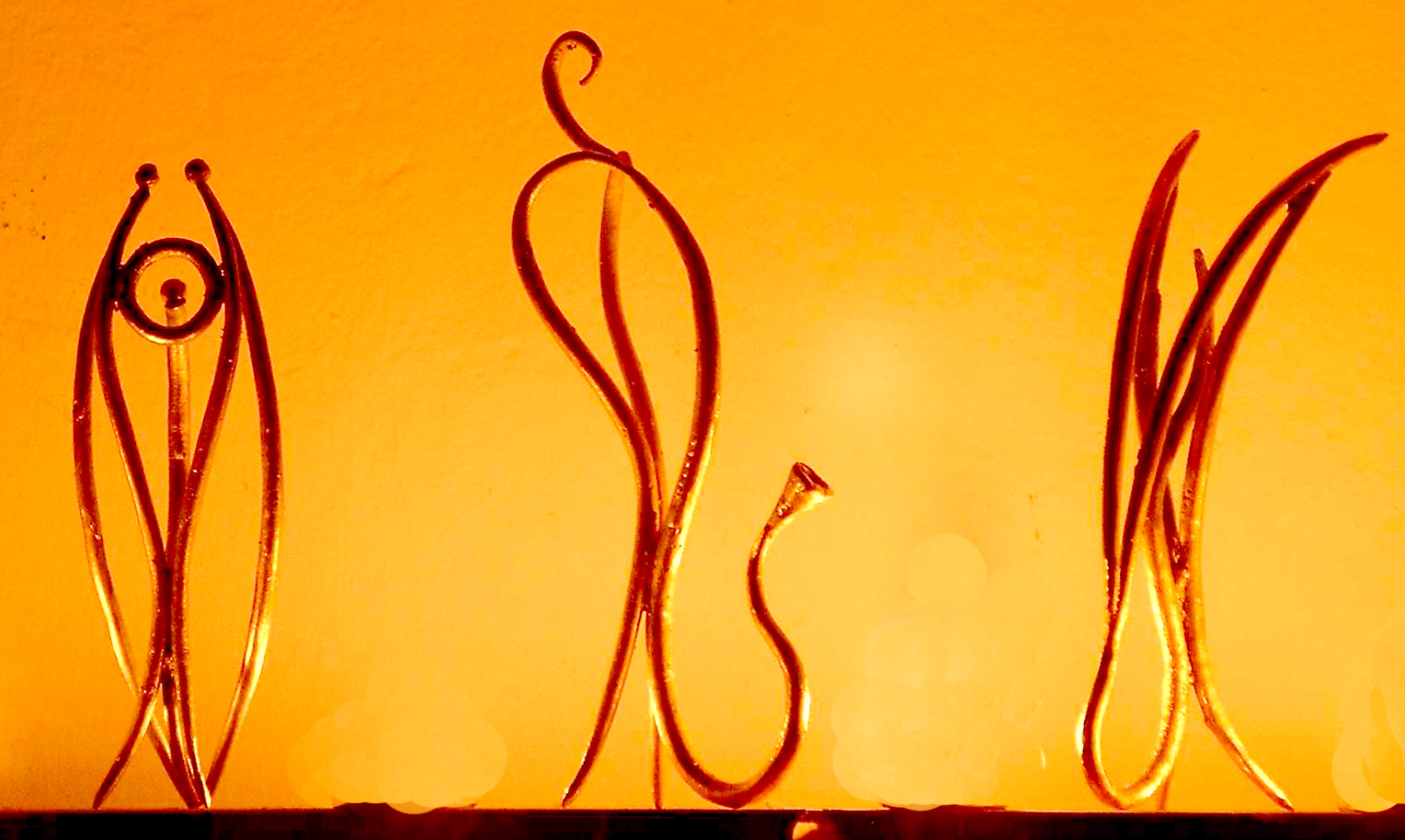 three brassfigures from the last stay in Ghana 2003